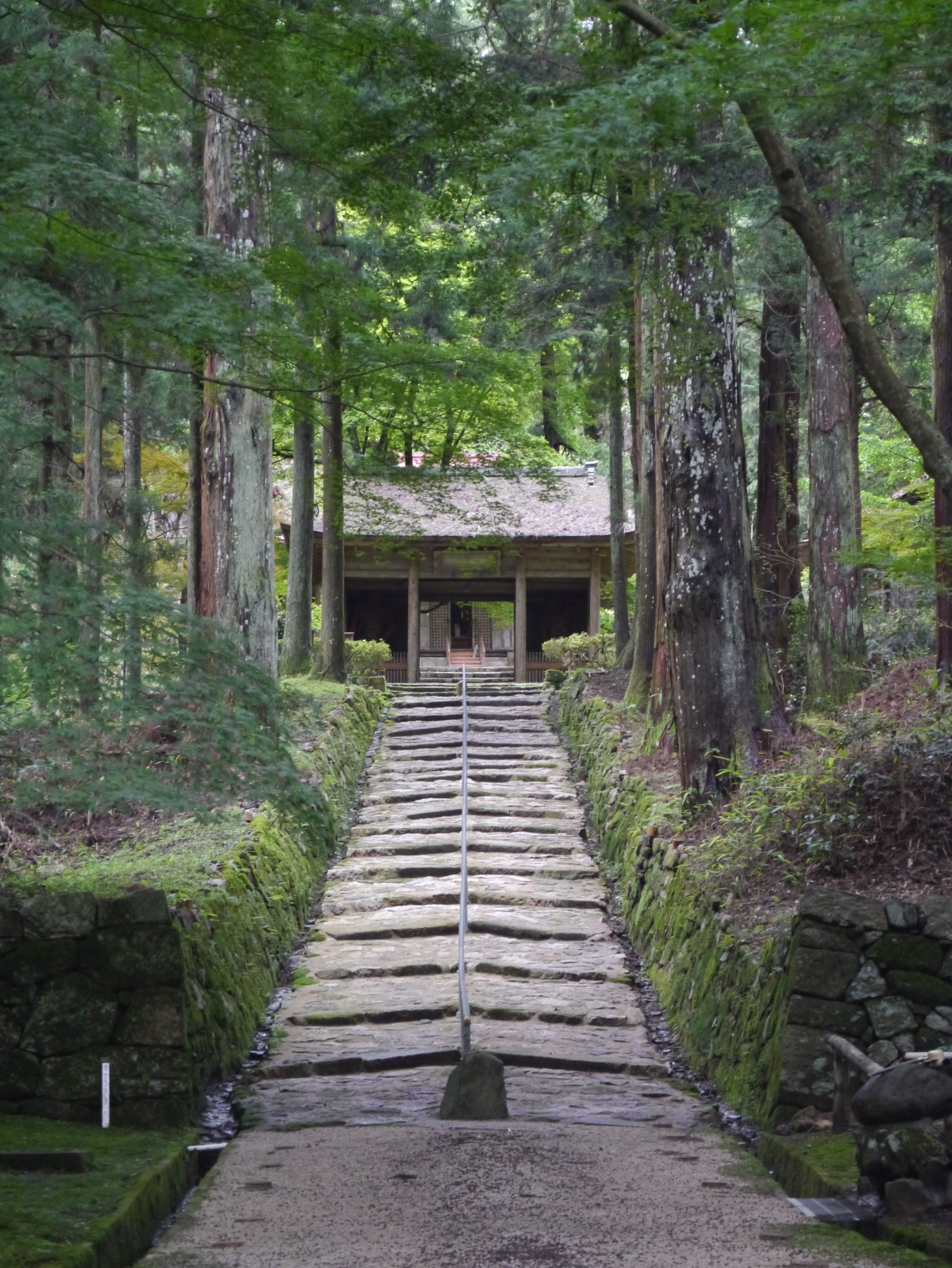 Arahari, Ritto, Shiga Prefecture 520-3003, Japan